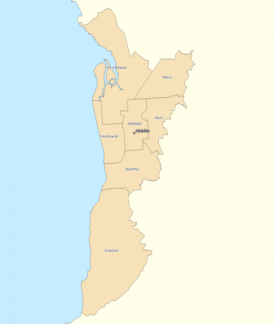 This image incorporates data that is: © Commonwealth of Australia (Australian Electoral Commission) 2009 Adelaide divisions overview 2010